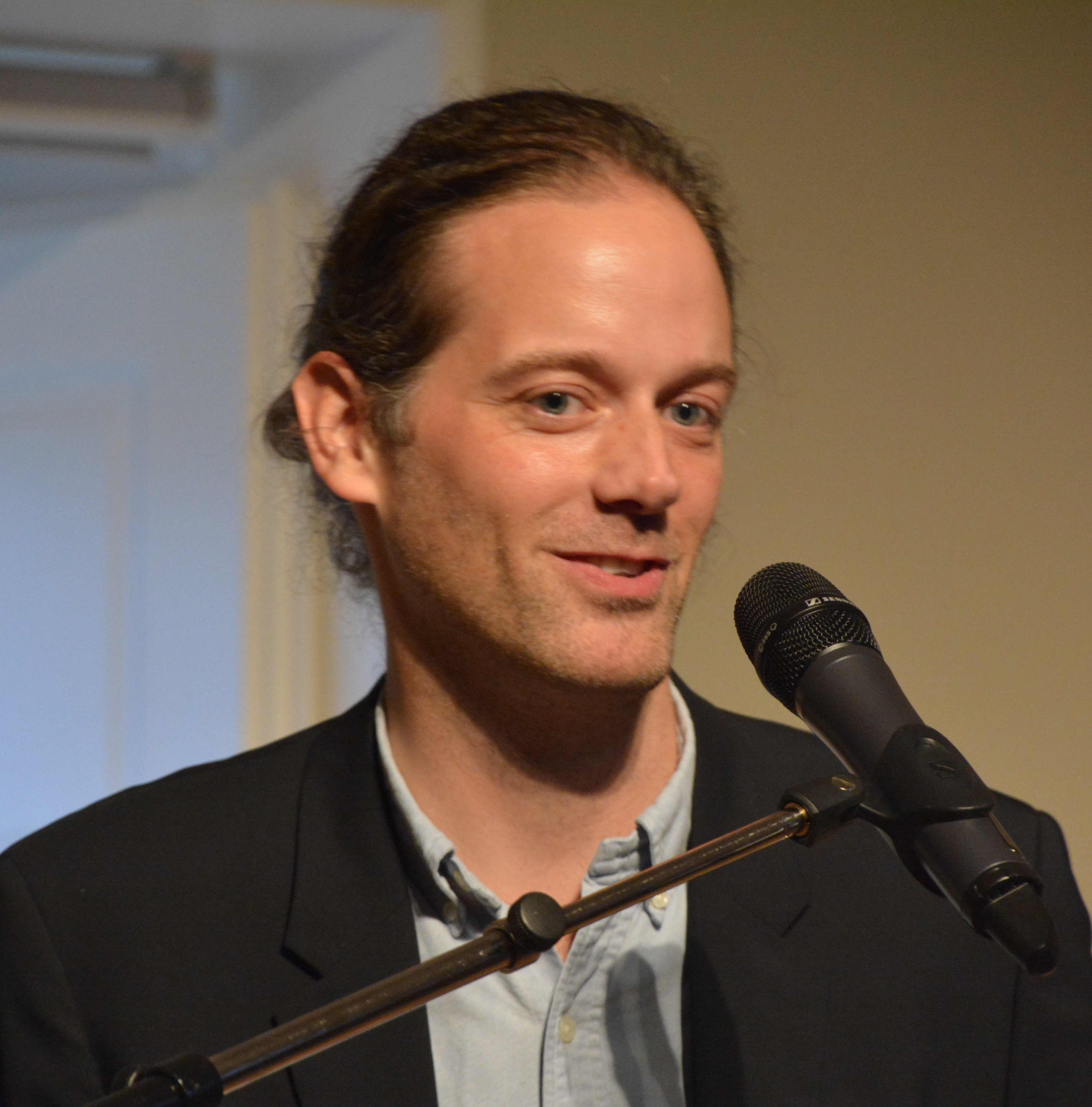 Johannes Heldén at Åke Andrén konststipendium prize ceremony 2015